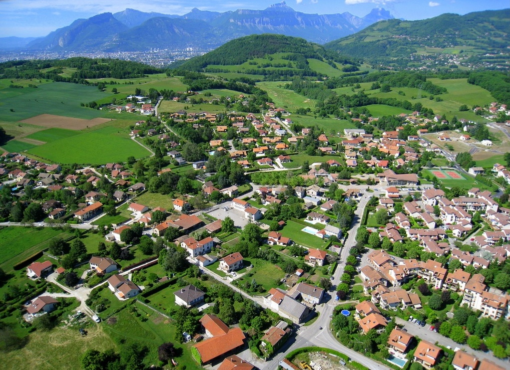 Aerial Photo of Jarrie.